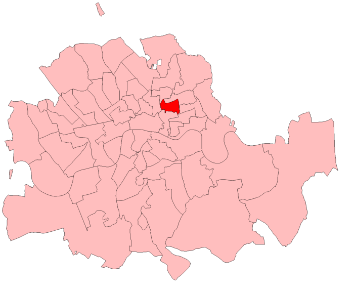 A map of Bethnal Green South West constituency within the Metropolitan Board of Works area, as it existed from 1885 to 1918.